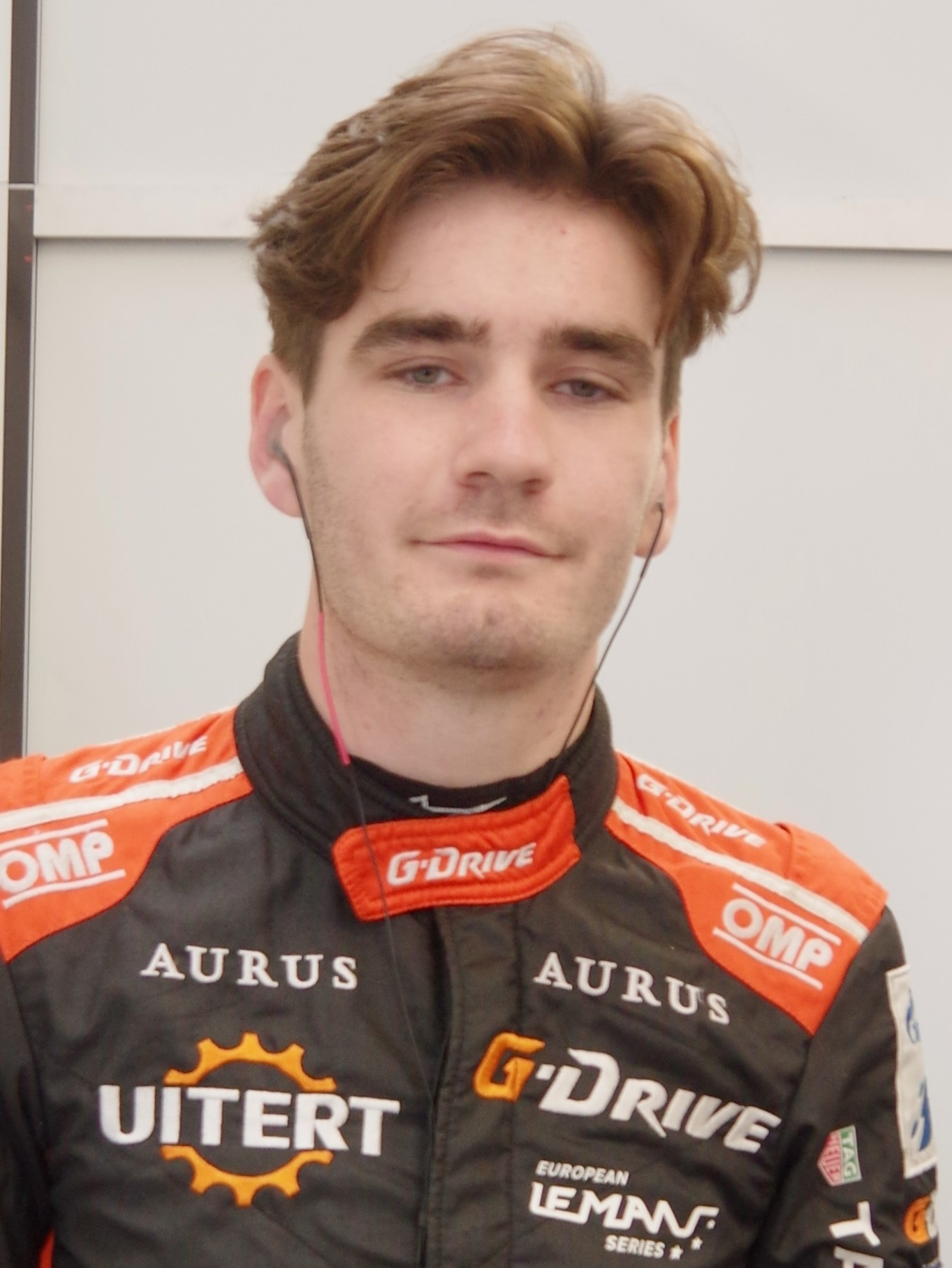 Job Van Uitert Driver of G-Drive Racing's Aurus 01 Gibson at the European Le Mans Series Silverstone 2019 4 Hours of Silverstone.